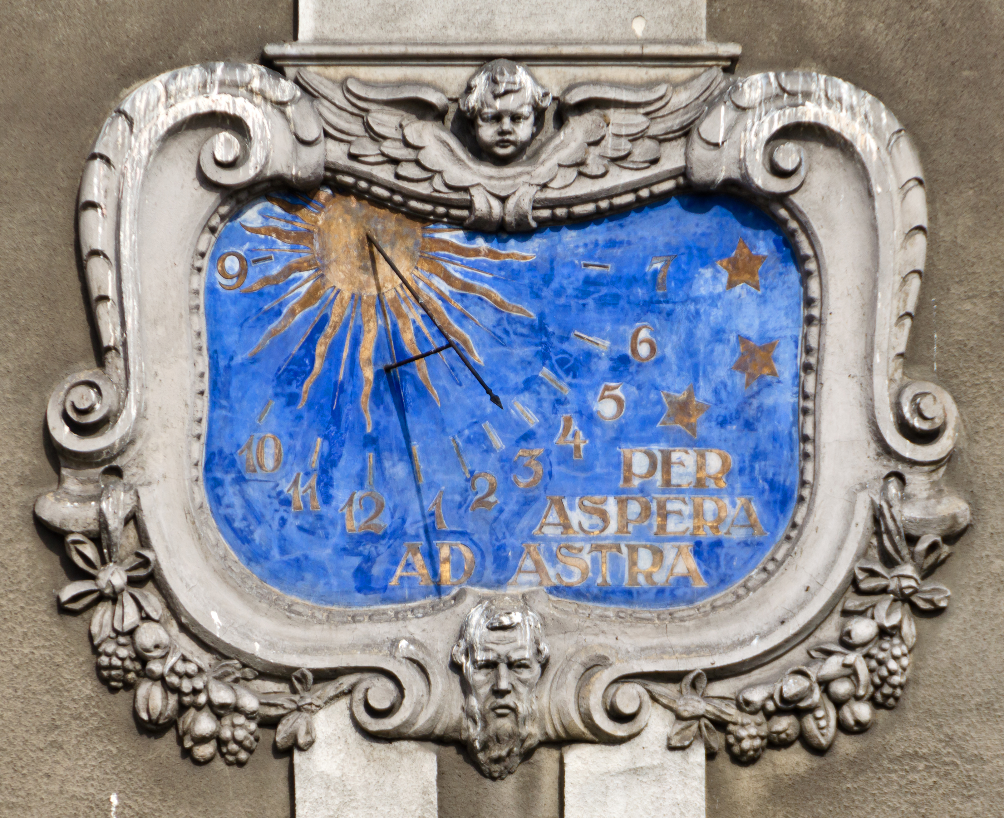 First High School in Kłodzko